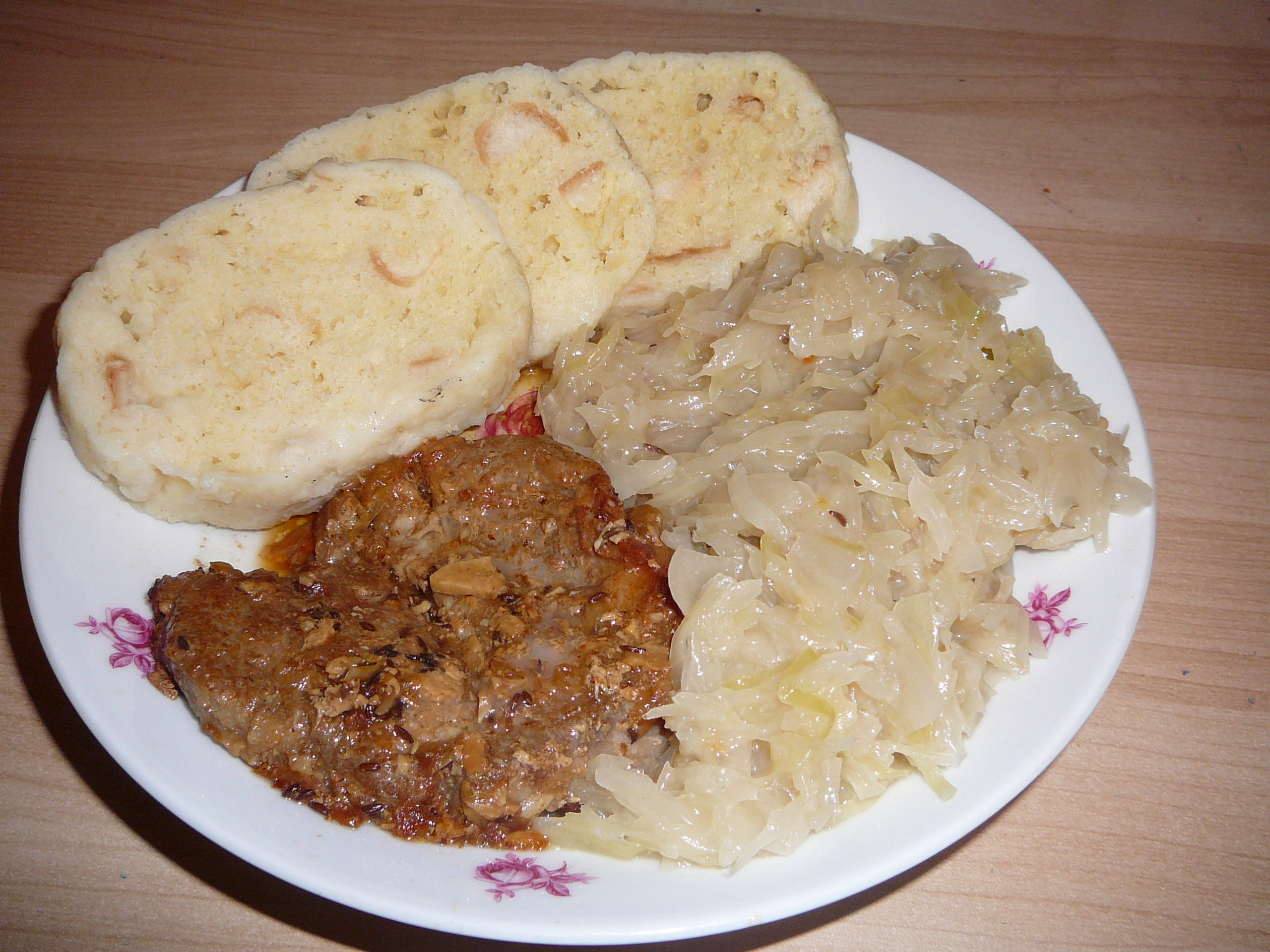 Roast pork with dumplings and cabbage